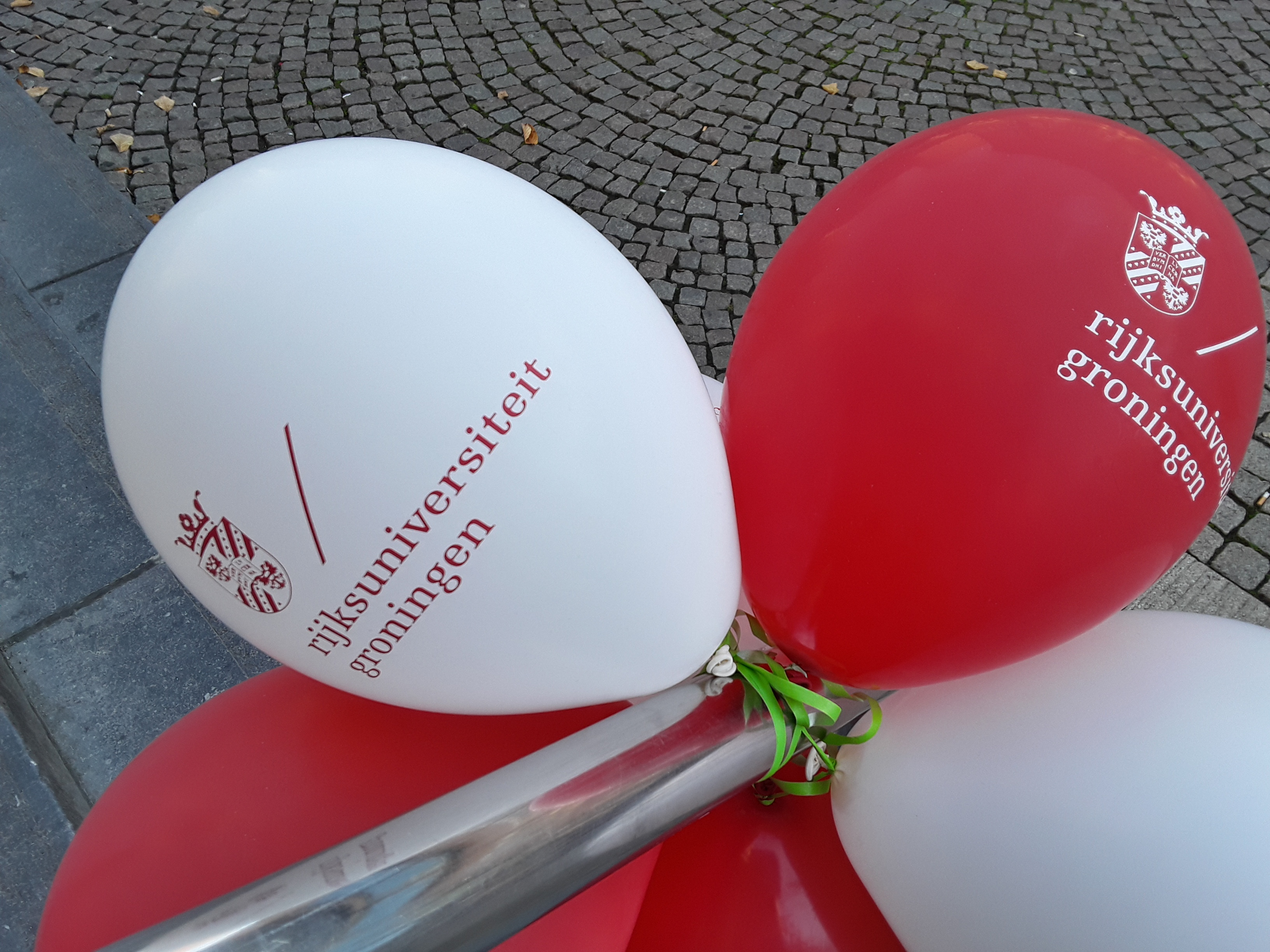 Balloons of Rijksuniversiteit Groningen (University of Groningen)